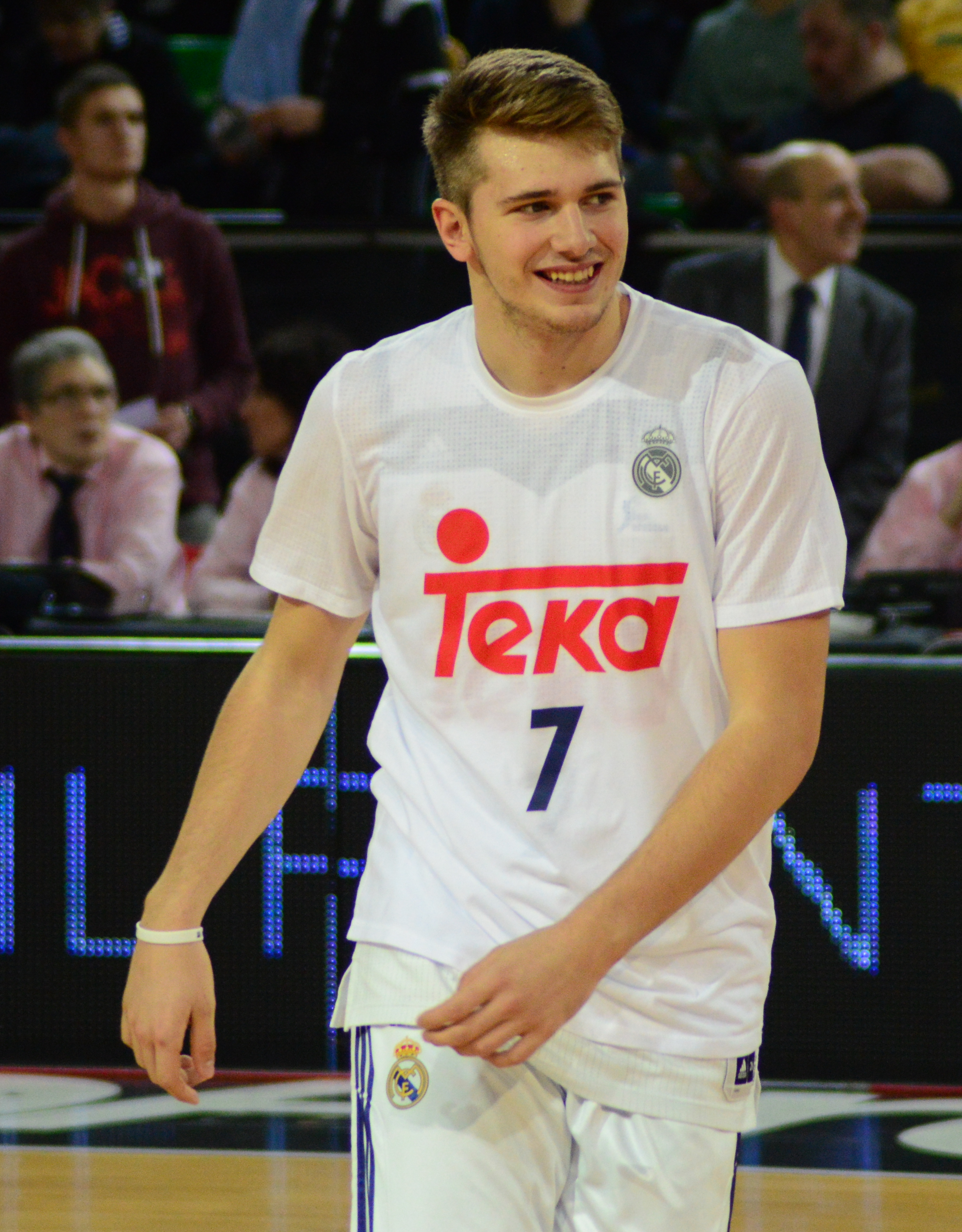 Luka Dončić playing for Real Madrid in 2016